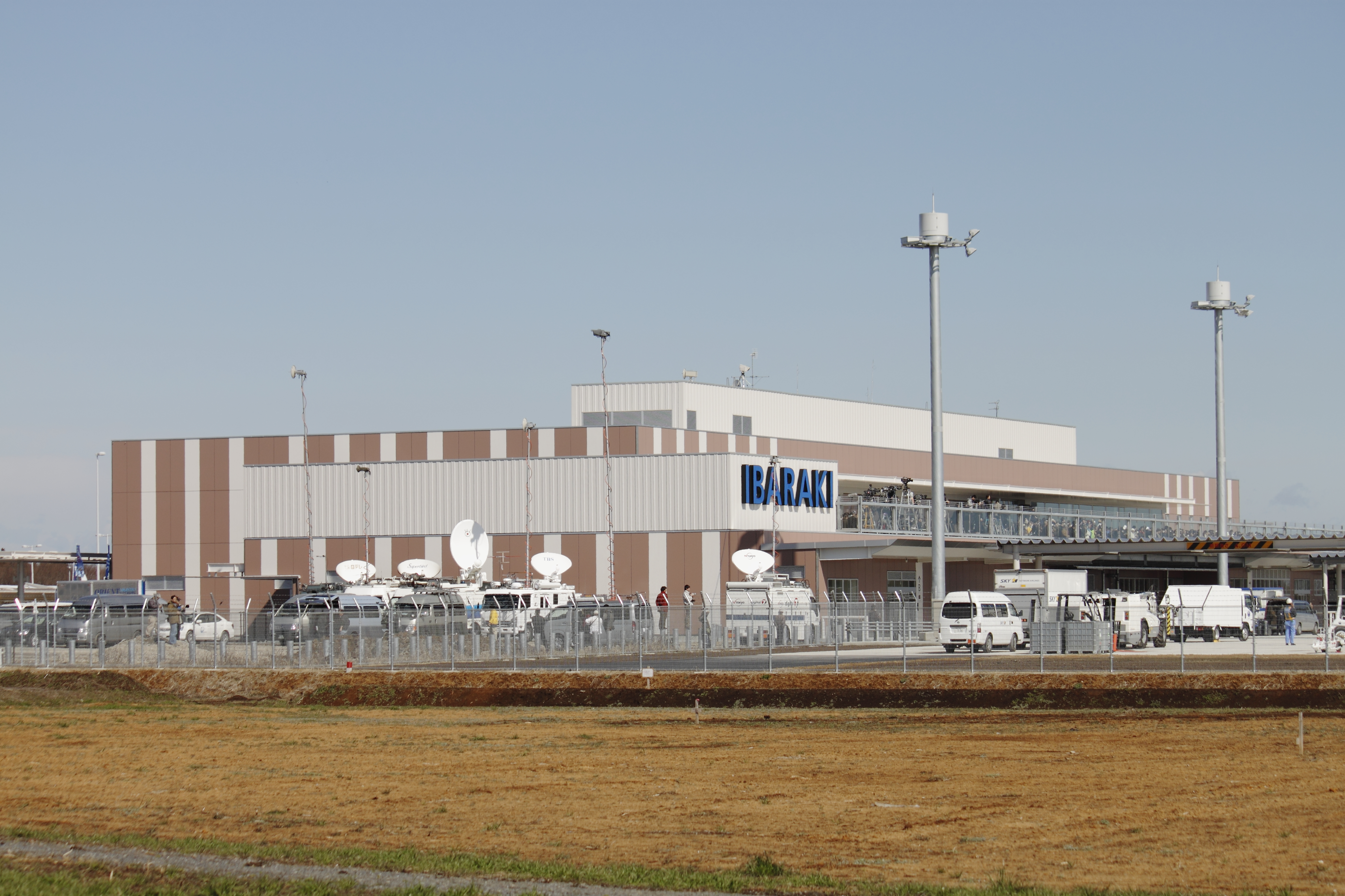 Ibaraki Airport (Hyakuri Airfield) Passenger Terminal